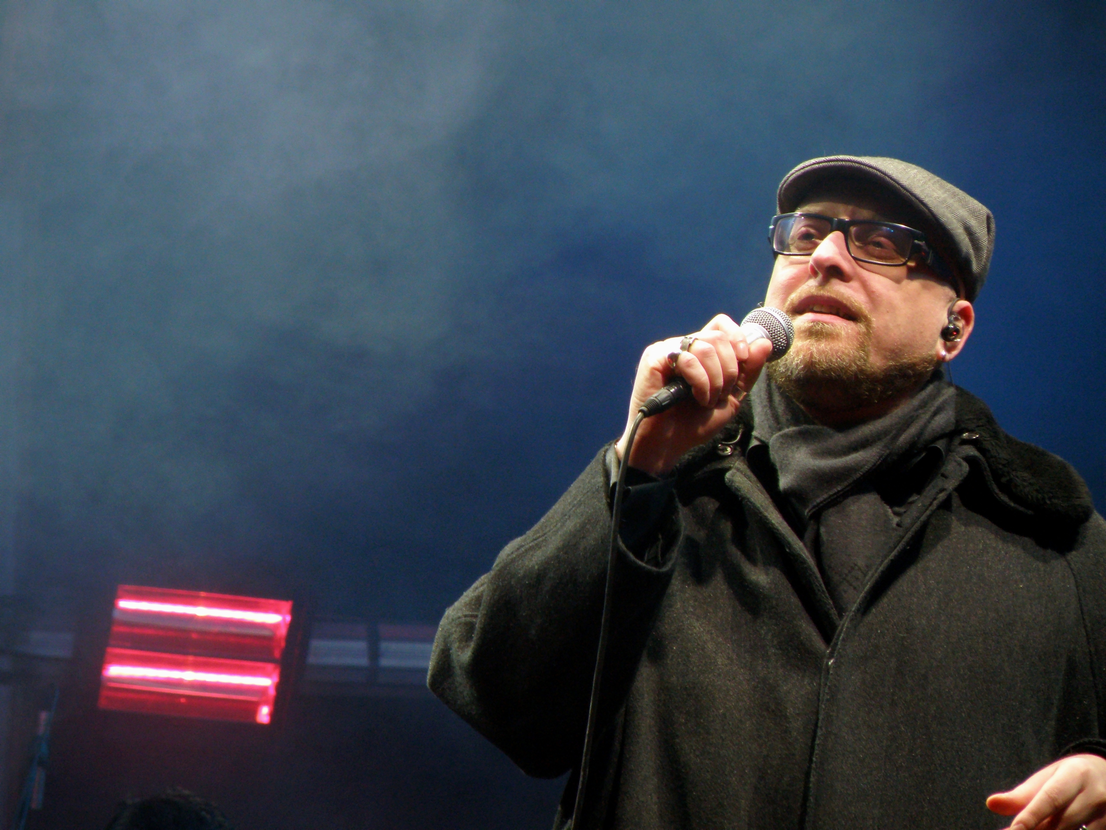 Mario Biondi in concert with the British band Incognito. The concert took place in a cold December of Milan, Italy, in piazza Duomo.